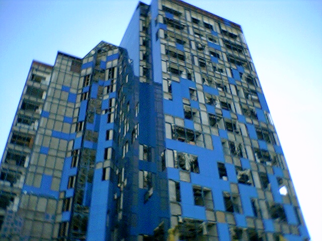 Façade damage to glass wall building in fort Lauderdale.